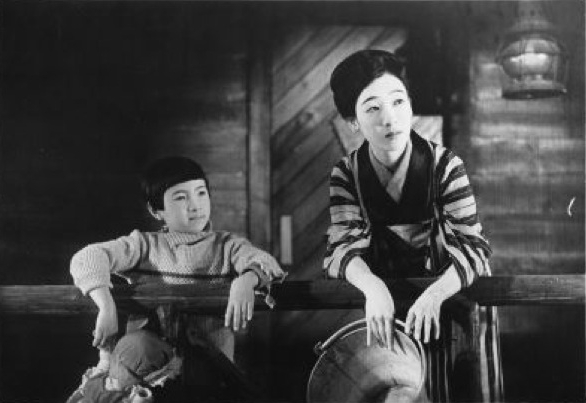 Mitsuko Ichimura and Akiko Chihaya in Nakinureta haru no onna yo (泣き濡れた春の女よ) directed by Hiroshi Shimizu - 1933